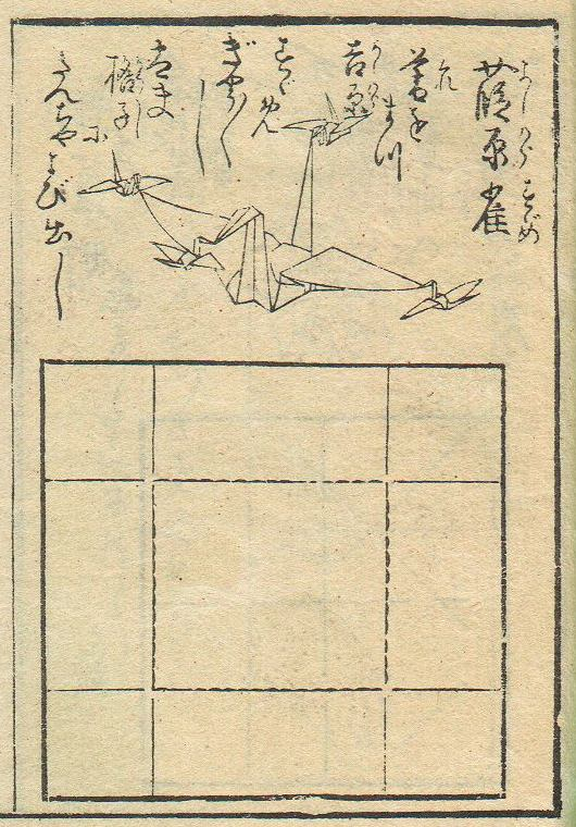 Hiden Senbazuru Orikata ("The Secret of One Thousand Cranes Origami") is one of the oldest known origami books